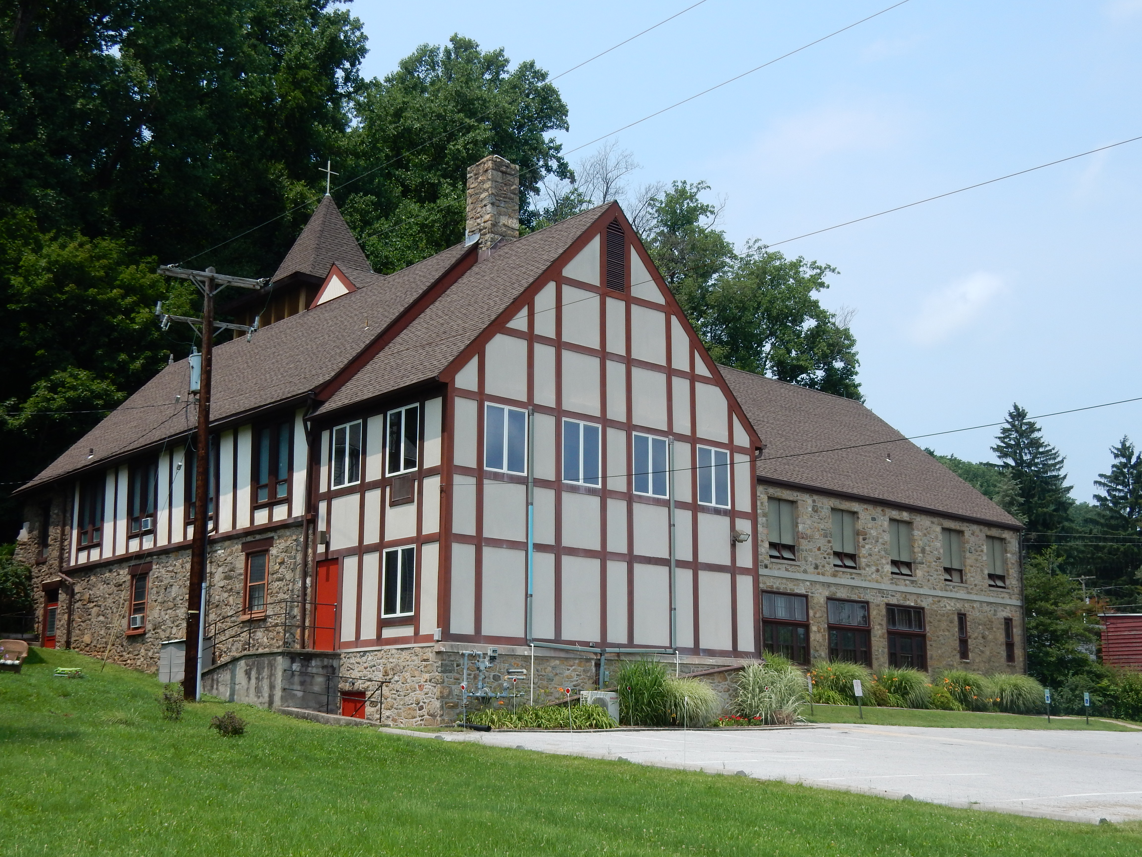 Bethany Evangelical Lutheran Church in Stony Creek Mills, Lower Alsace Township, Berks County, Pennsylvania. 1375 Friedensburg Rd., Reading, PA. View from Carsonia Ave.